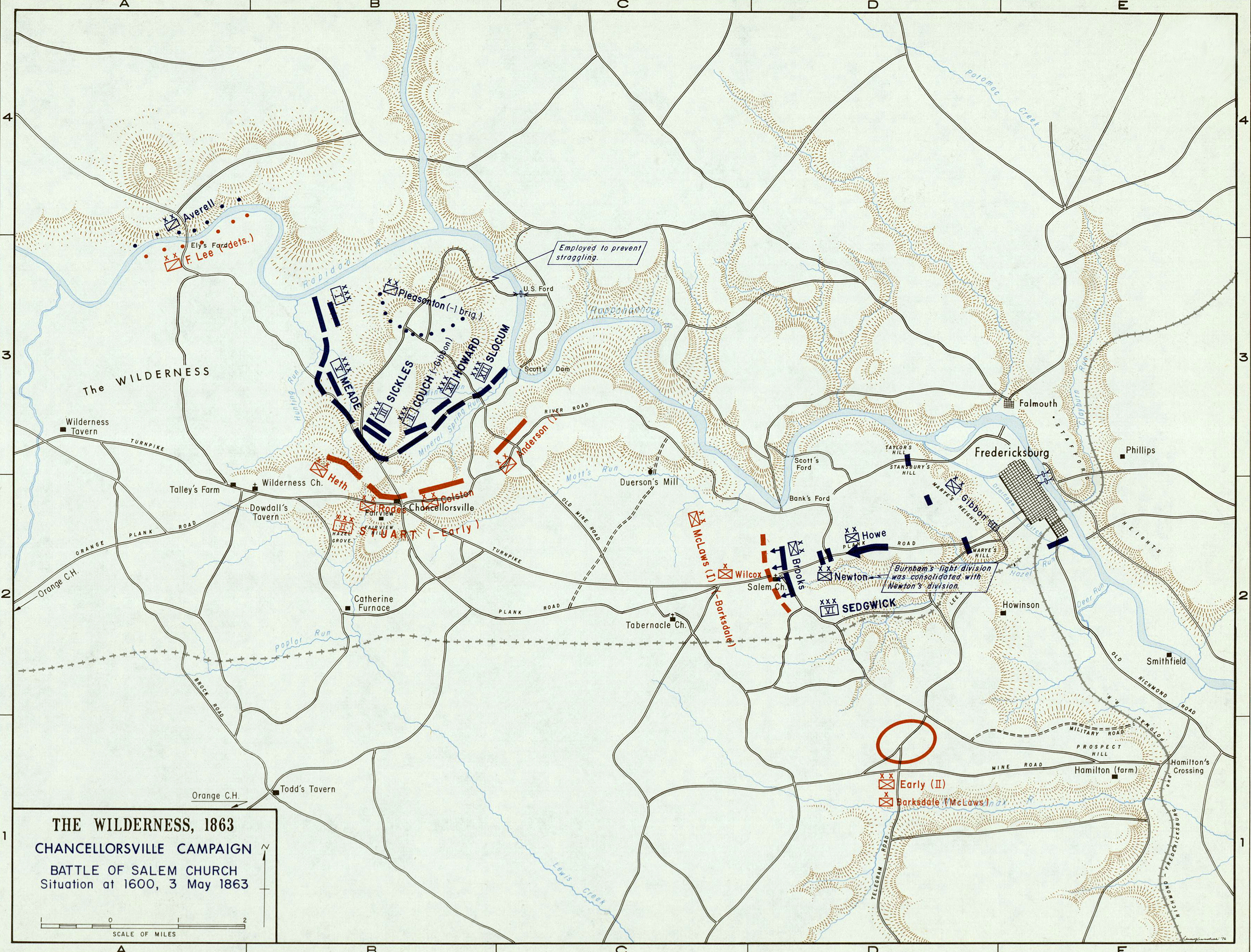 Chancellorsville Campaign, 3 May 1863 (Battle of Salem Church: Situation at 1600).